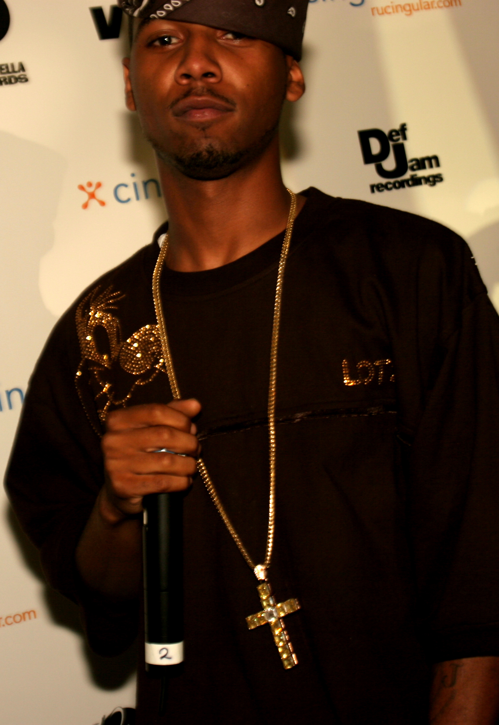 Juelz Santana in July 2005.